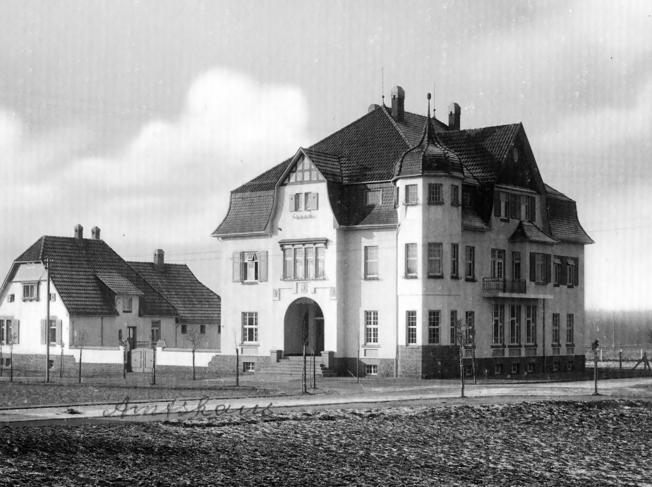 Amtshaus des Amtes Halle (Westf.)